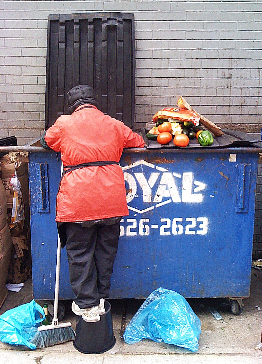 People - Foraging one meal at a time East Village, New York, New York, USA